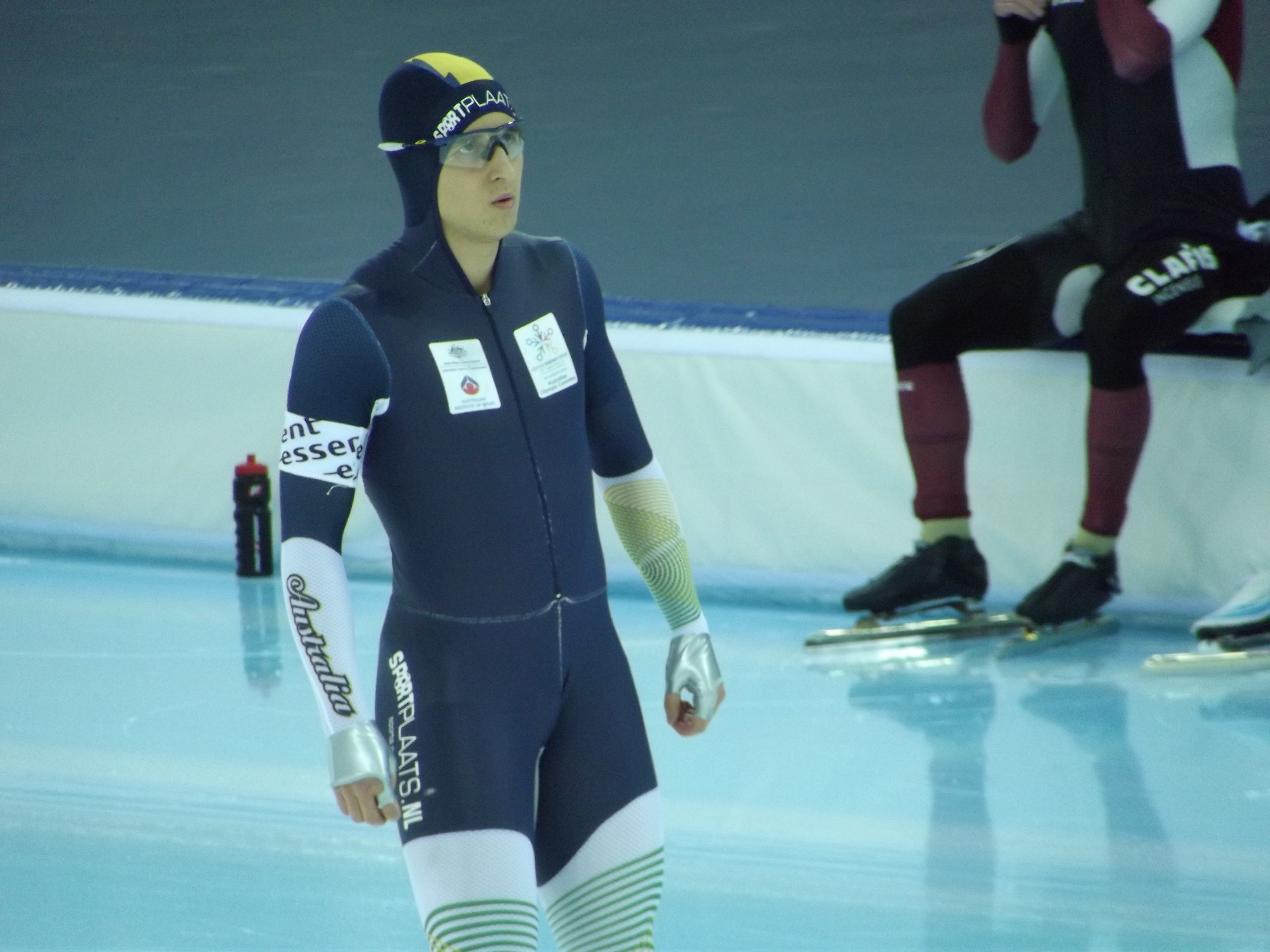 2013 World Single Distance Speed Skating Championships